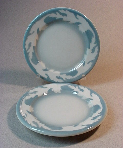 Syracuse China - Oakleigh - airbrushed stencil design on bread and butter plates